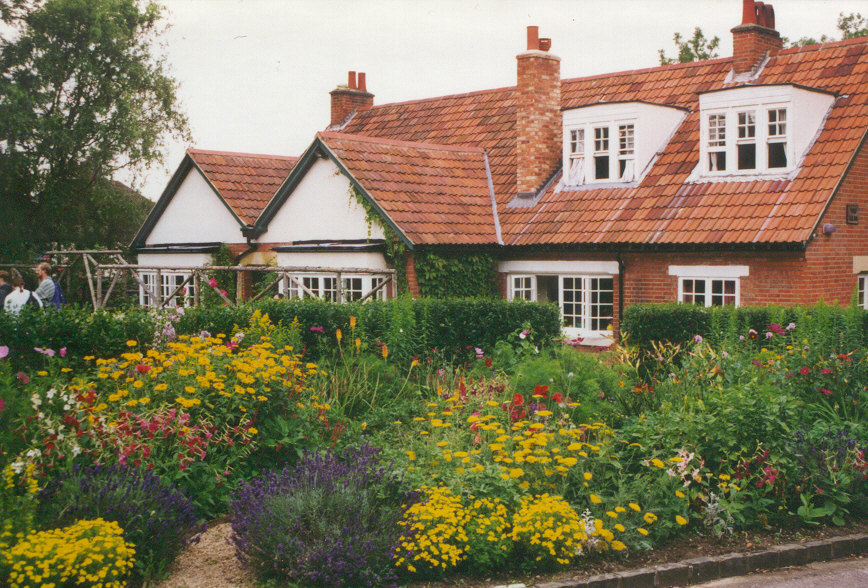 This is a photo of "The Kilns" - C.S. Lewis' home in Oxford. This picture, and all pictures in this series were taken in 1997.